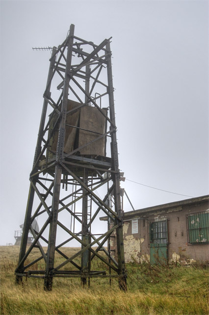 Remains of mast - RAF Oxenhope (Oxenhope Moor Labs)